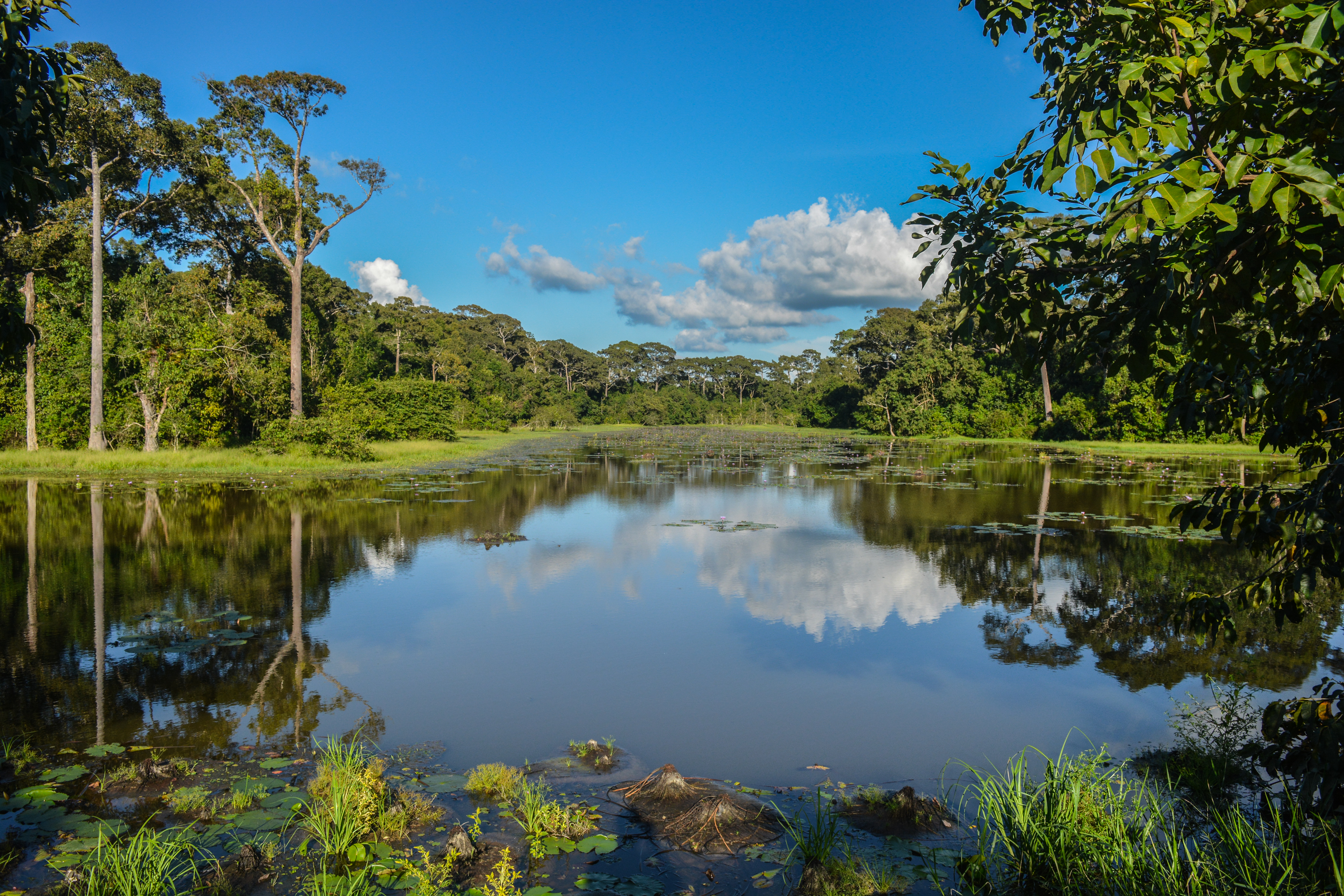 Late spring view of Dulahazra Safari Park, Chakaria Upazila in Cox's Bazar